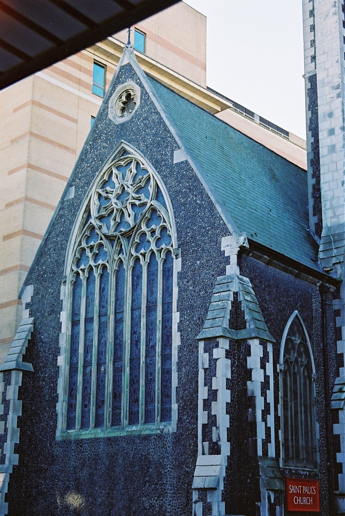 The Church of St. Paul, West Street, Brighton, designed by R. C. Carpenter.